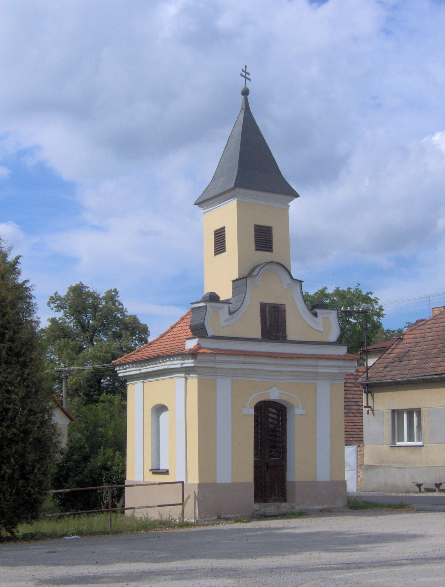 Chapel in village Temelín. Česky: Kaple v obci Temelín.